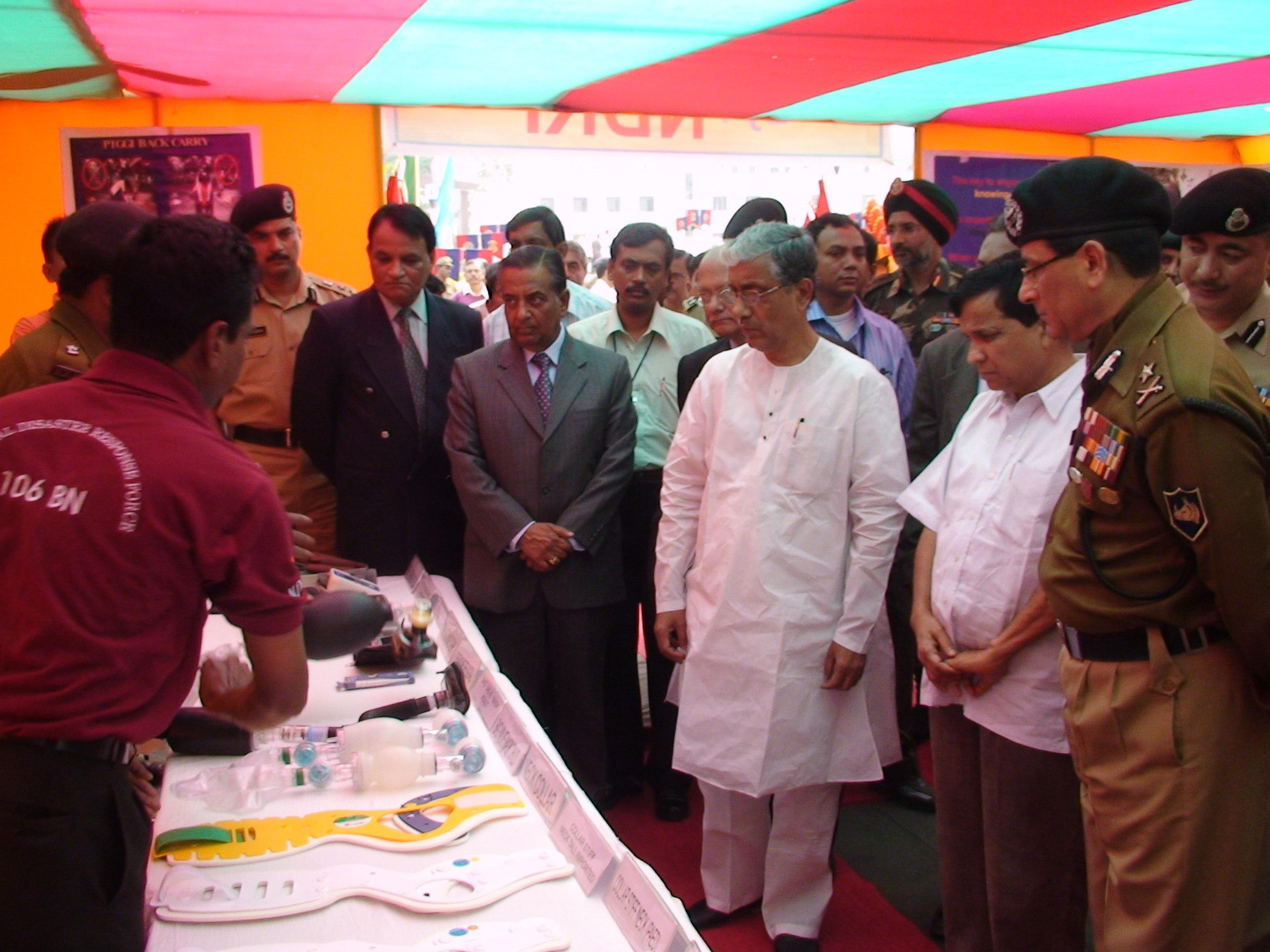 Exhibition on Disaster Awareness at Agartala